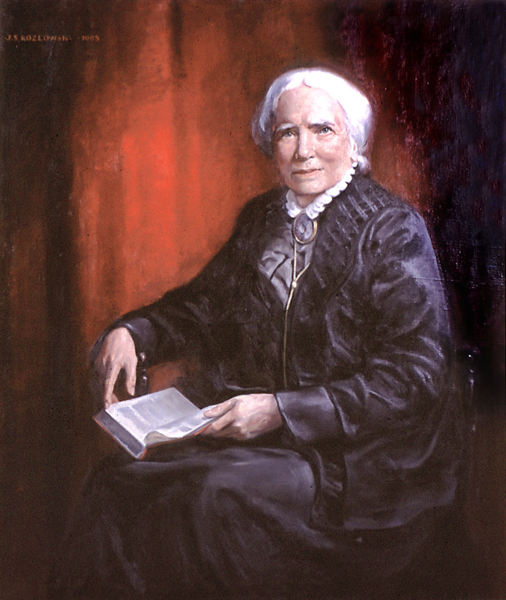 Portrait of Elizabeth Blackwell by Joseph Stanley Kozlowski, 1905.